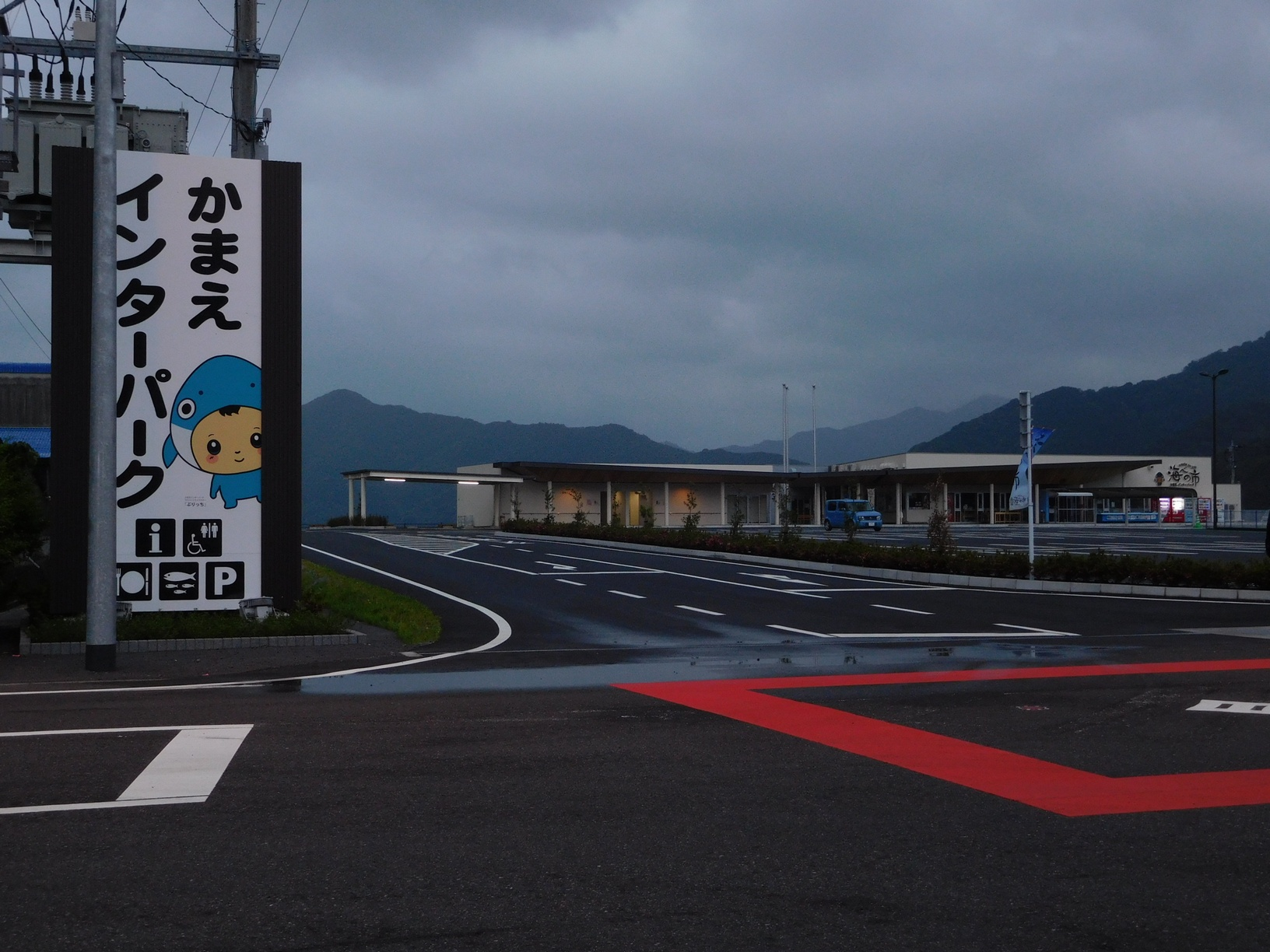 The "Kamae Inter Park" at Kamae, Saiki City, Oita Prefecture, Japan.